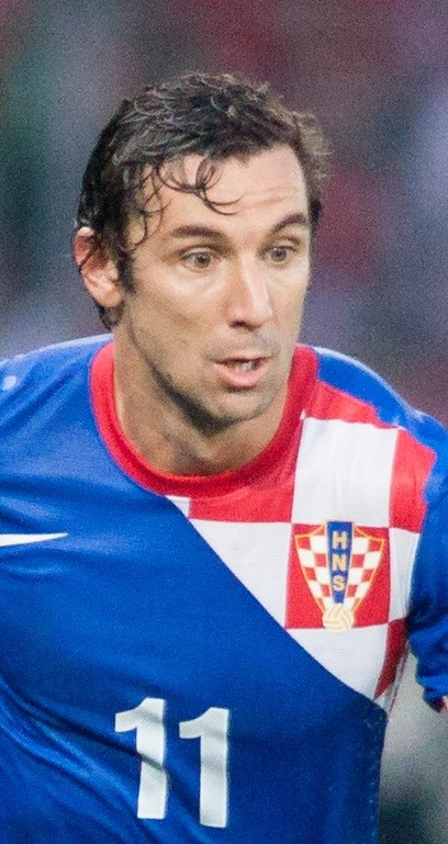 Darijo Srna - Croatia vs. Portugal, 10th June 2013